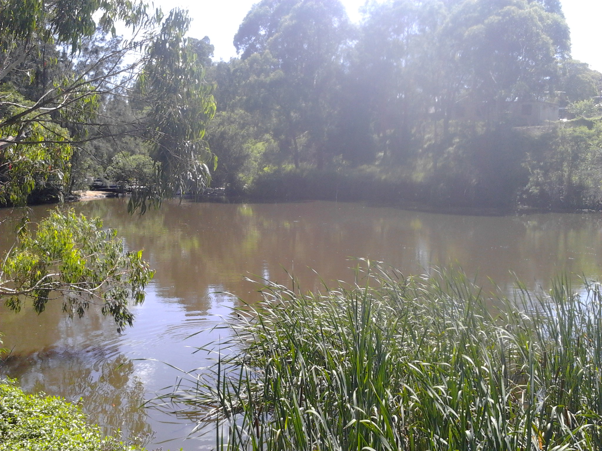 This shows the Headwaters of the Parramatta River at the confluence of Darling Mills Creek and Toongabbie Creek.